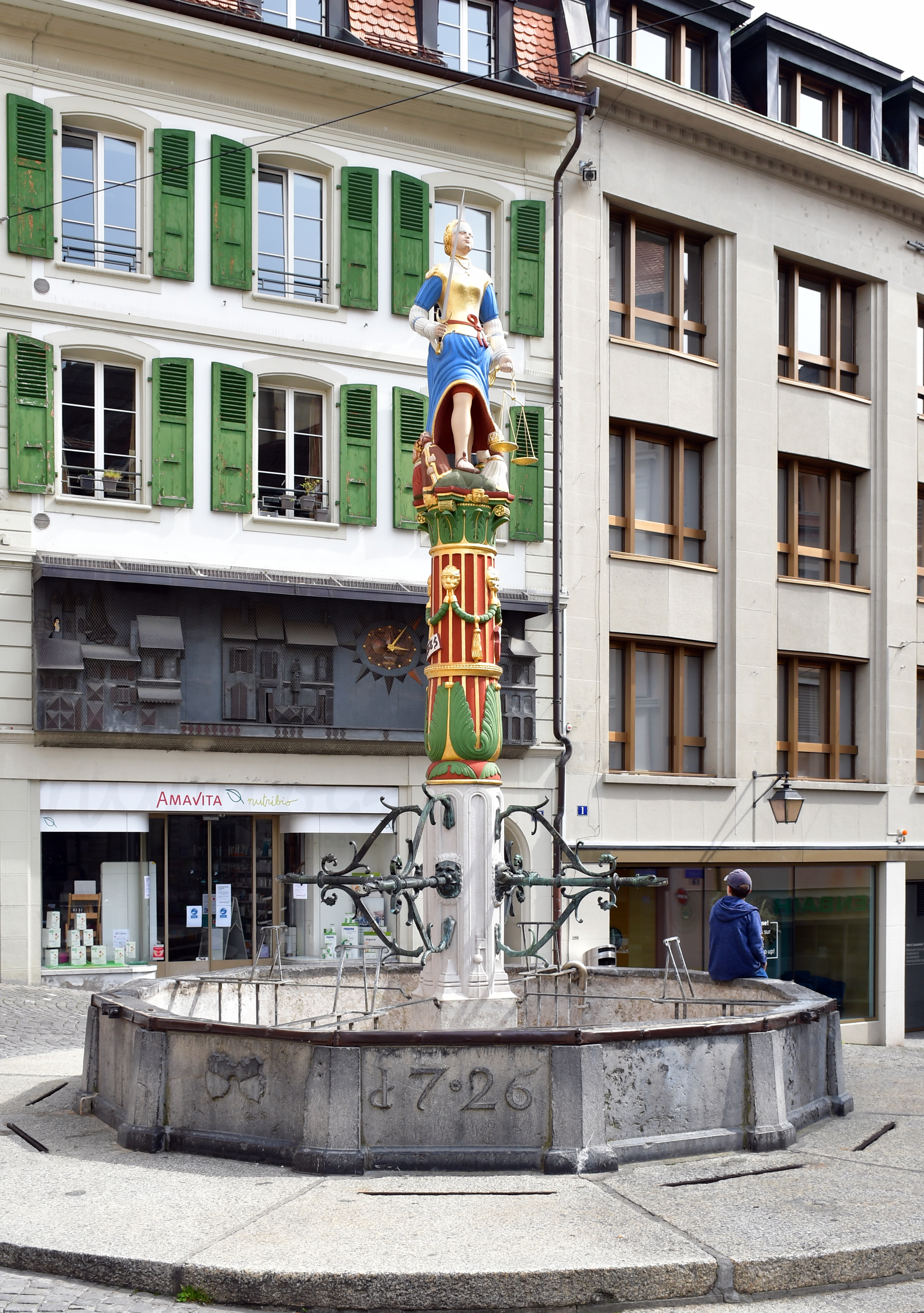 Fountain of Justice at Place de la Palud (Palud Square), Lausanne (Switzerland). Behind it can be seen the animated clock.